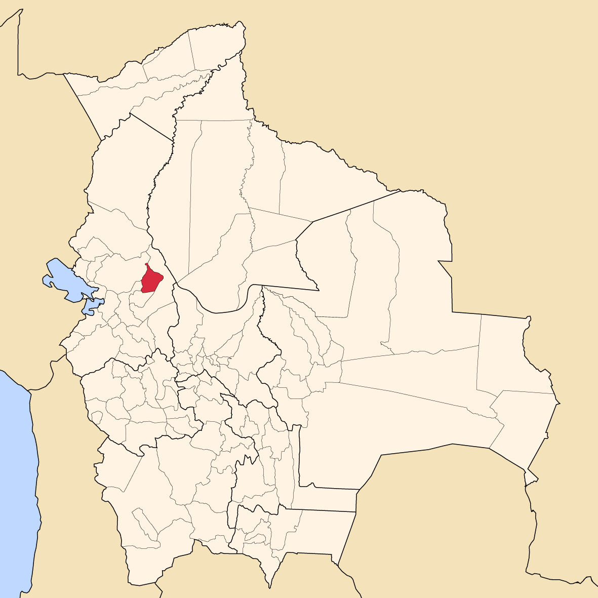 Map of Bolivia showing Caranavi province, La Paz